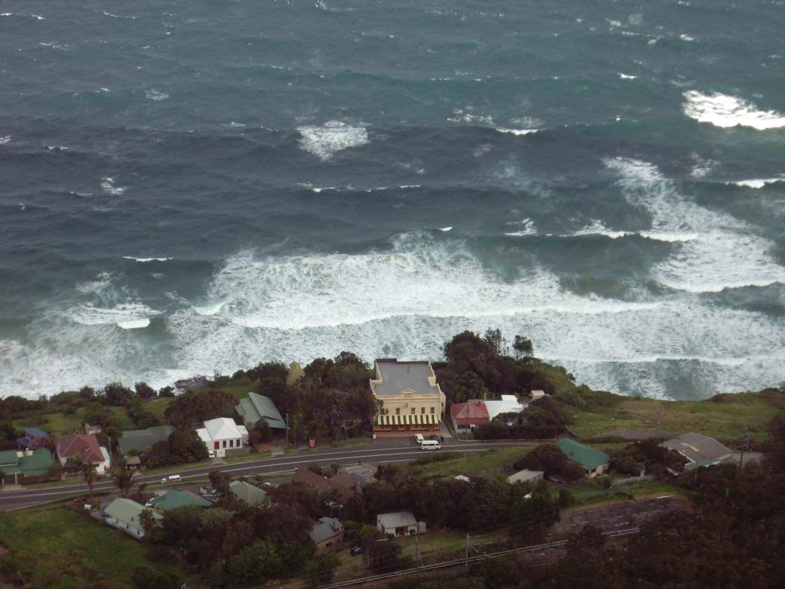 View from the Escarpment above Clifton in the northern Illawarra.